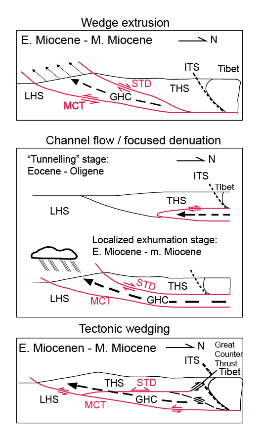 Kinematics models of Himalayan orogen. Modified from Webb, A. Alexander G., et al. "Cenozoic tectonic history of the Himachal Himalaya (northwestern India) and its constraints on the formation mechanism of the Himalayan orogen." Geosphere 7.4 (2011): 1013-1061.